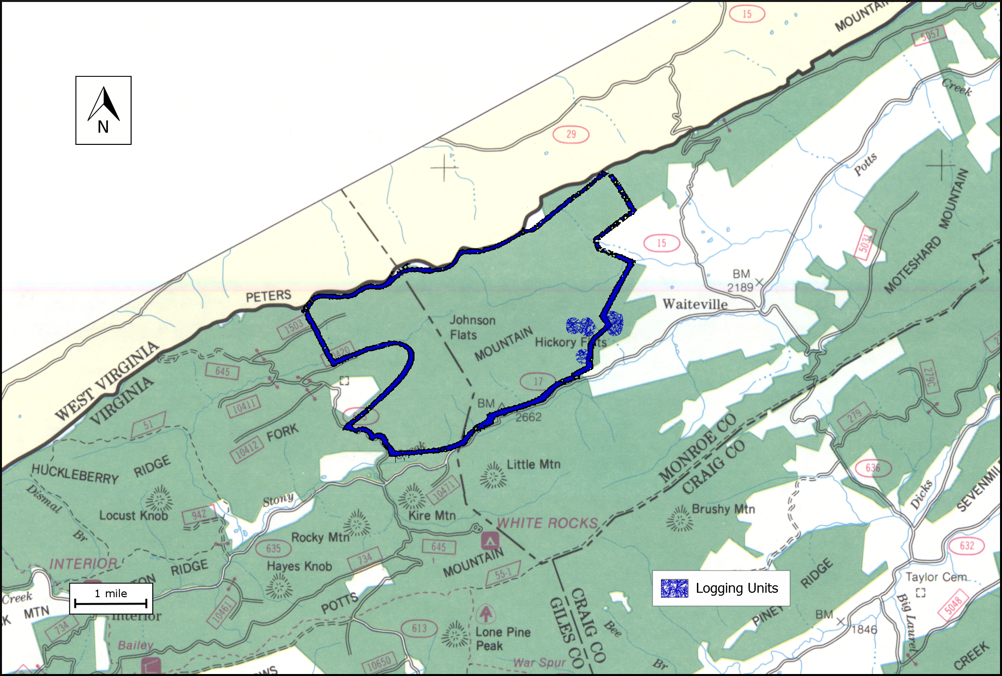 The file shows the boundary of Hickory Flats in the Jefferson National Forest